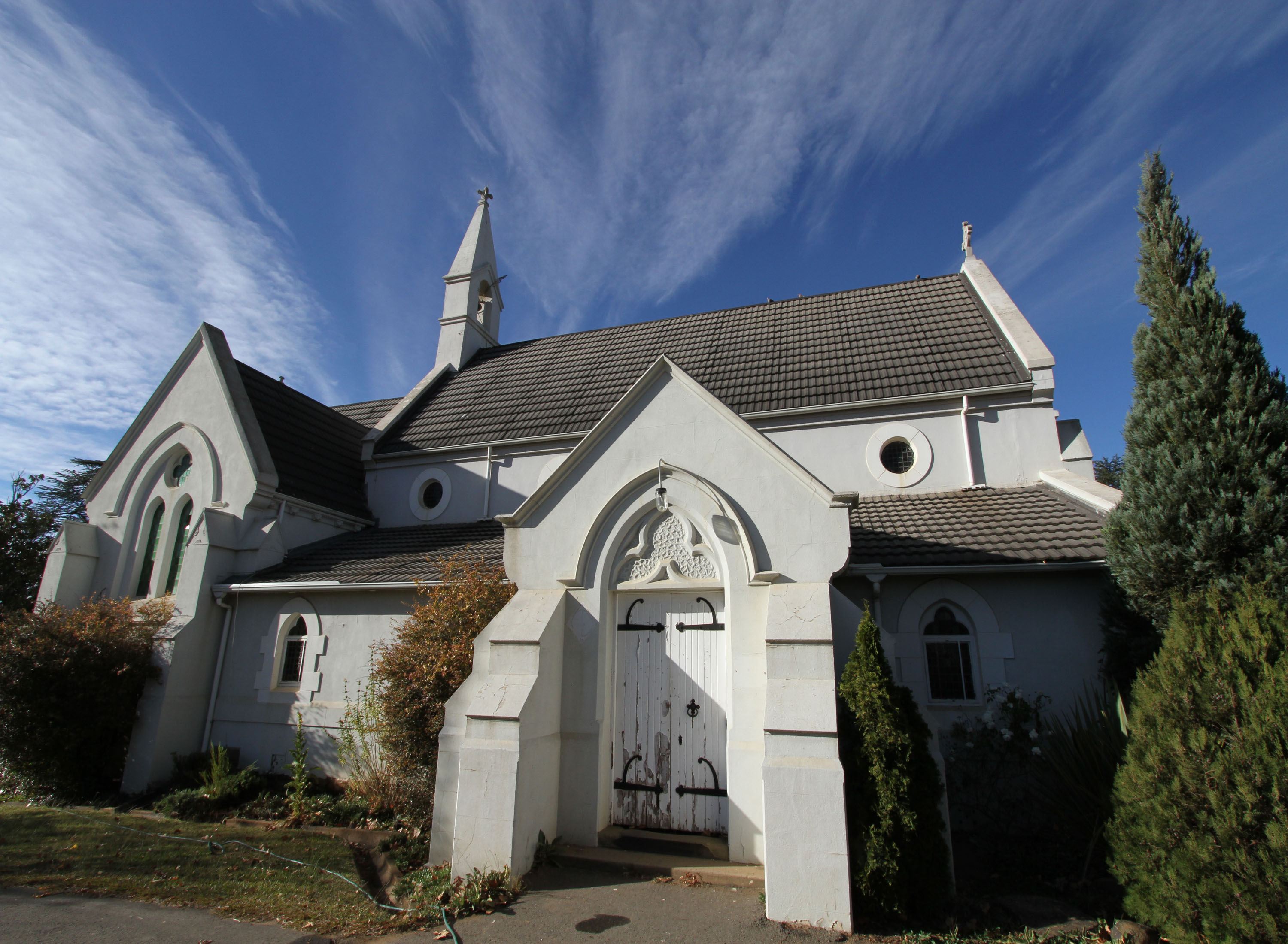 Holy Trinity Church in Kokstad is one of the older and more elegent churches in Main Street